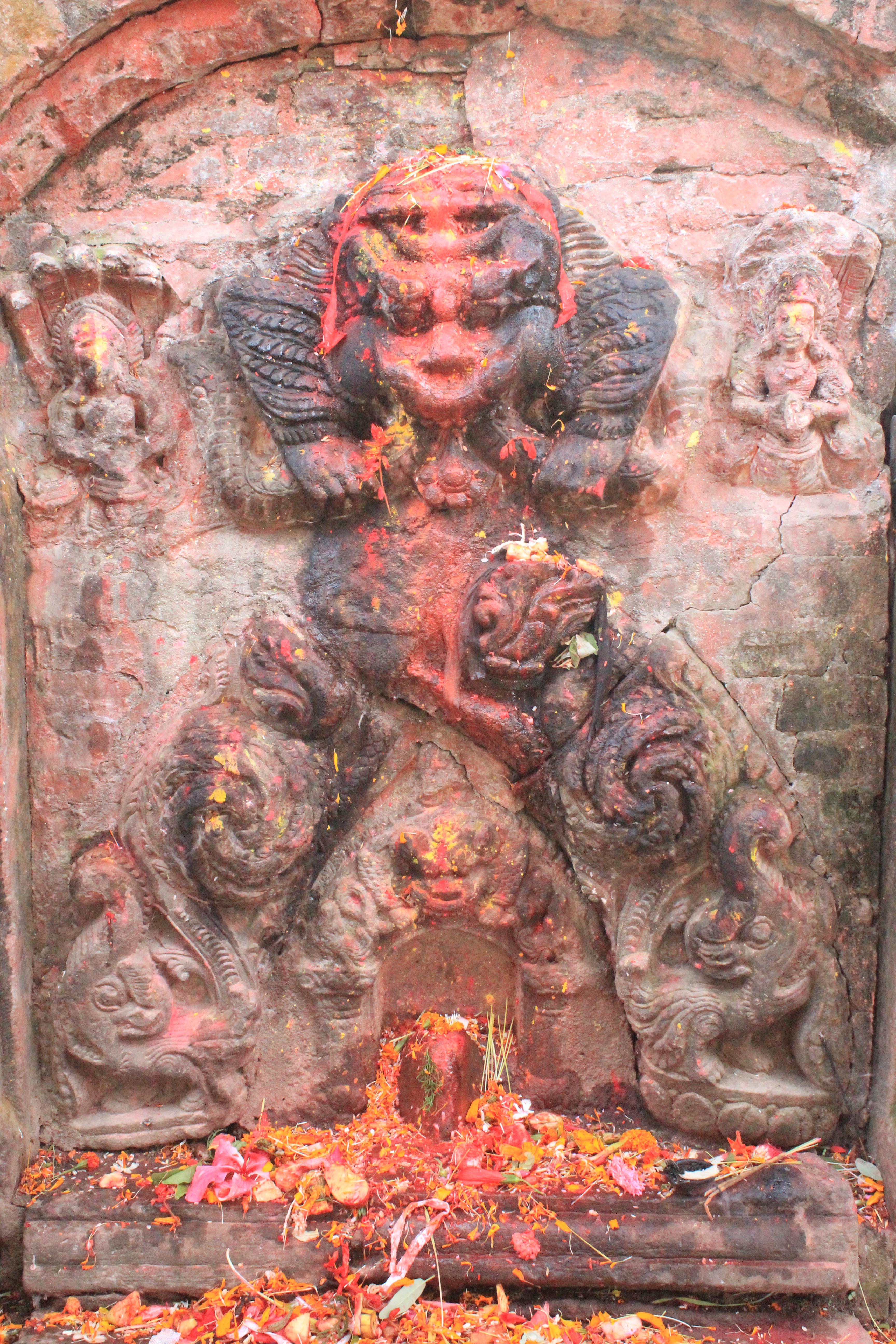 Bhagwati Temple